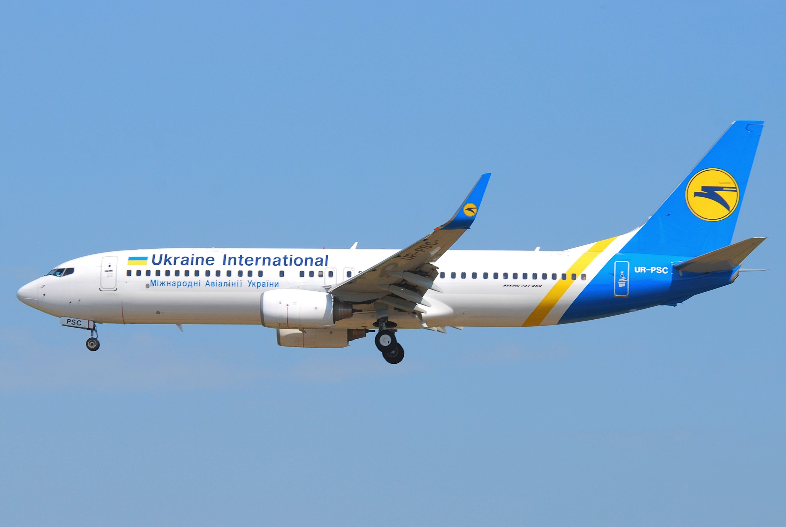 This Boeing 737-8HX took its first flight on February 5, 2010...